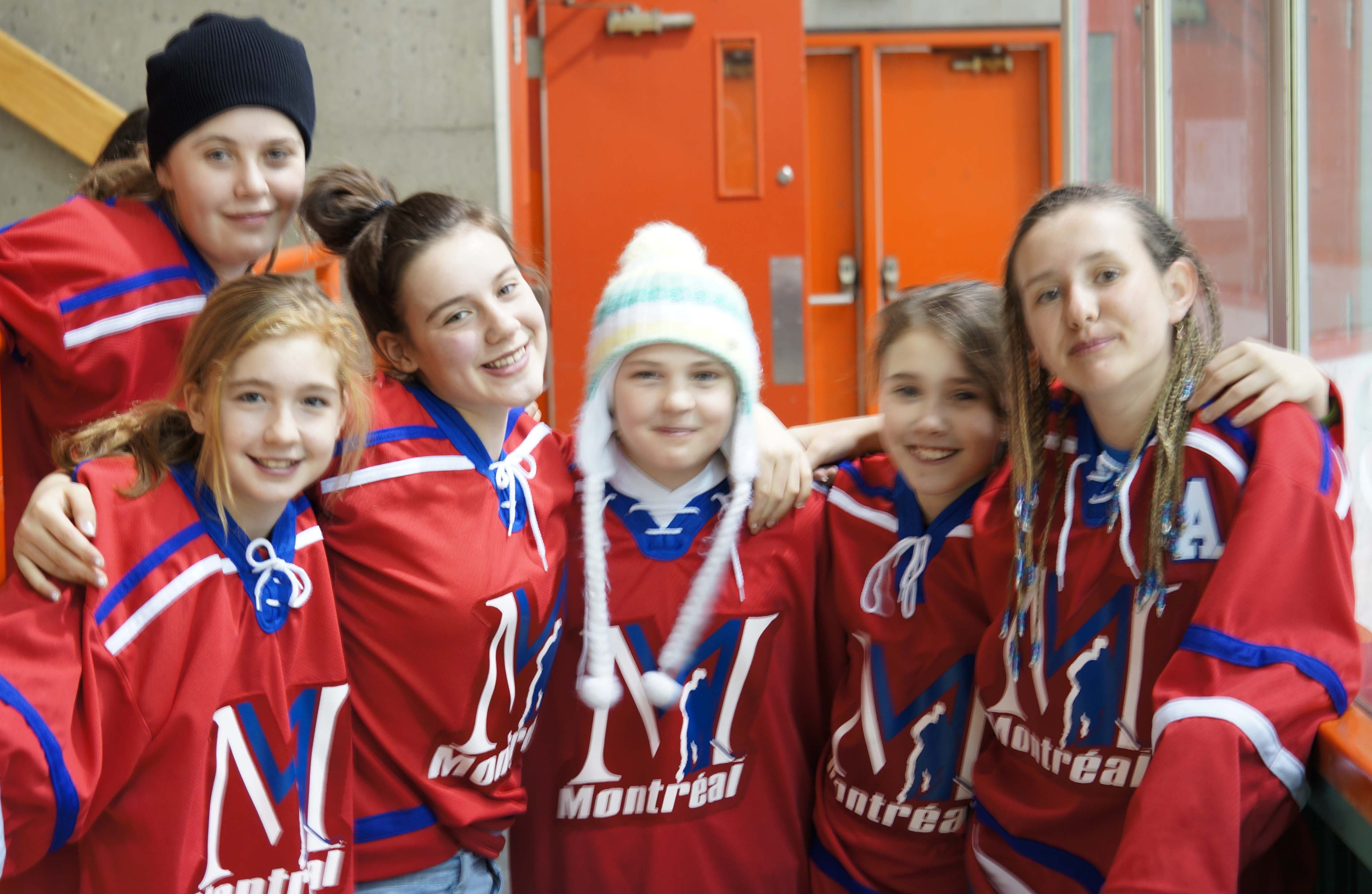 Young girls of Hockey Montreal Girls Hockey, at Arena St-Louis-Montreal, January 21, 2012